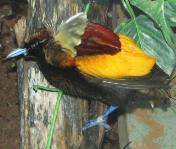 Bird of Paradise